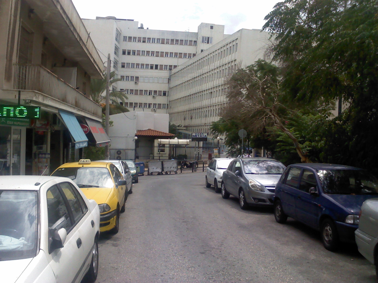 Hospital Metaxa